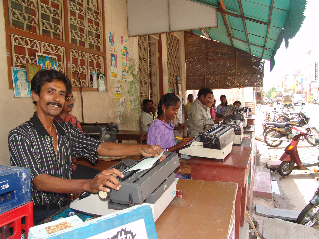 Street typists in Puducherry, India